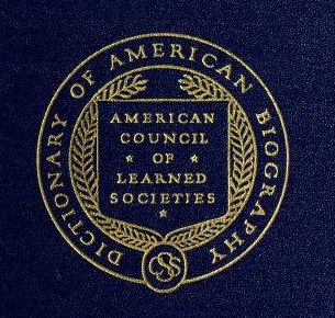 Portada del Dictionary of American Biography